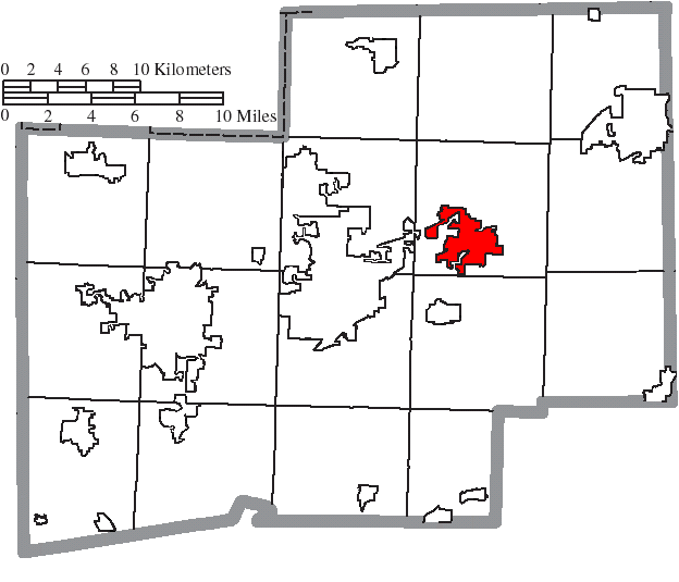 Map of the municipal and township boundaries of Stark County, Ohio, United States, as of the 2000 census, with the location of the city of Louisville highlighted. Township borders are shown only in unincorporated areas in order to differentiate incorporated and unincorporated areas more clearly.